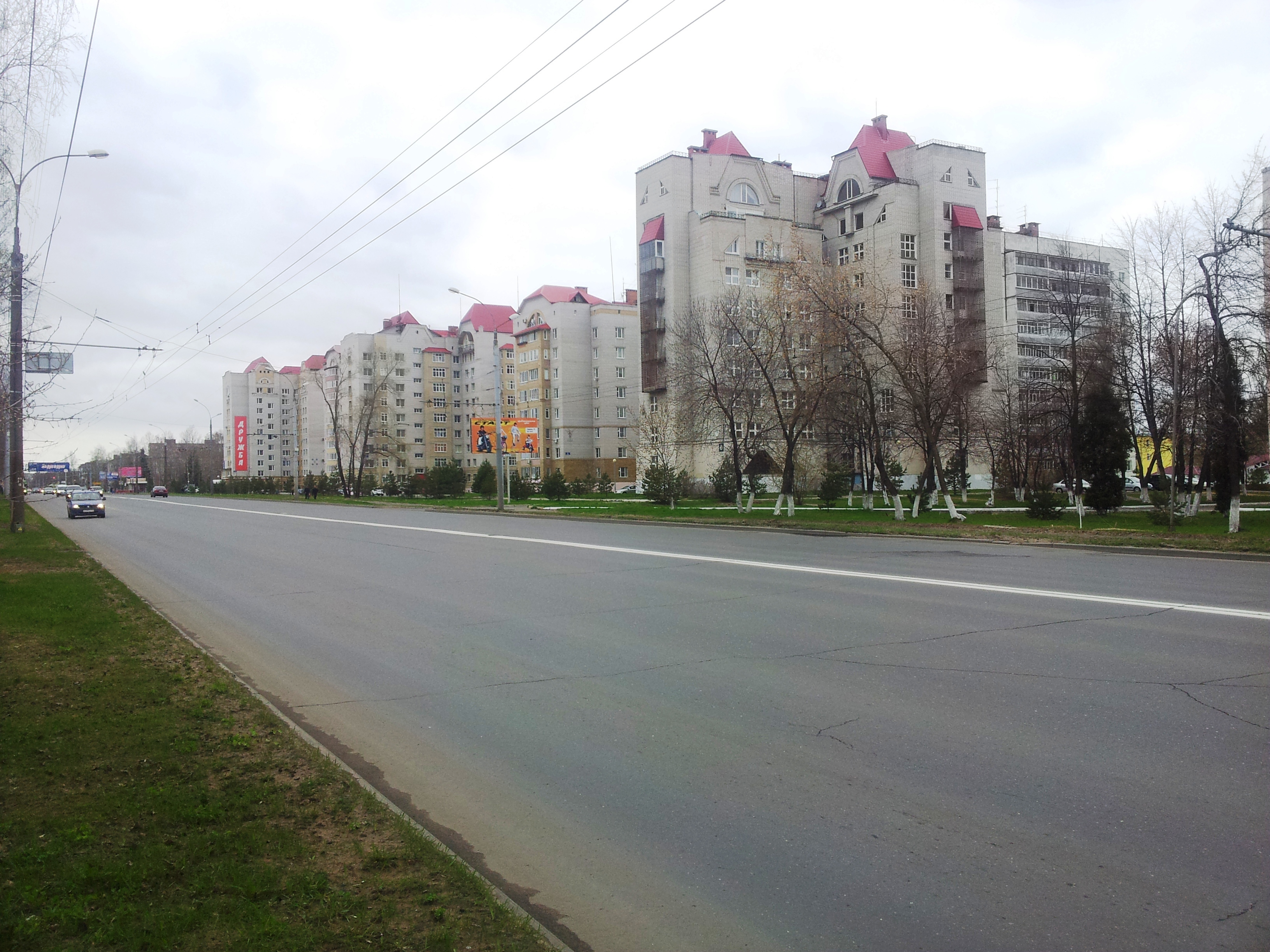 Lenin avenue in Rybinsk, Russia